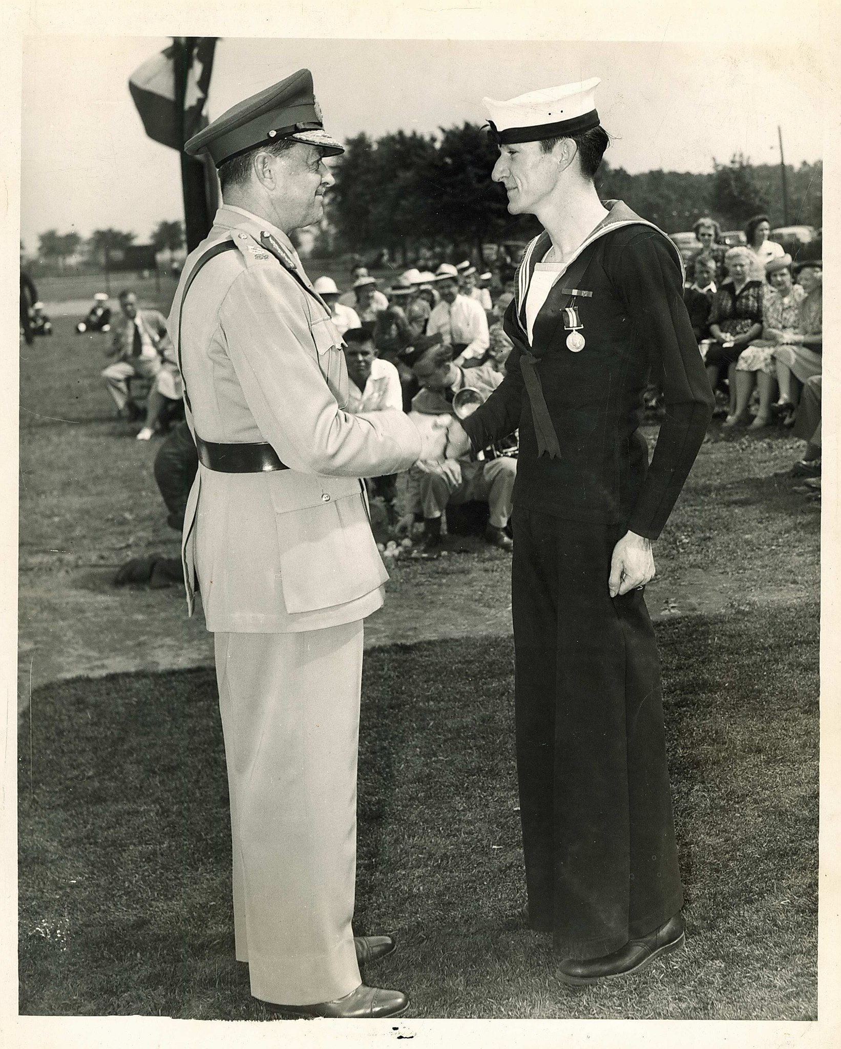 Thomas Joseph Simpson is one of only 114 Canadians to receive the Distinguished Service Medal (D.S.M) for World War II service.